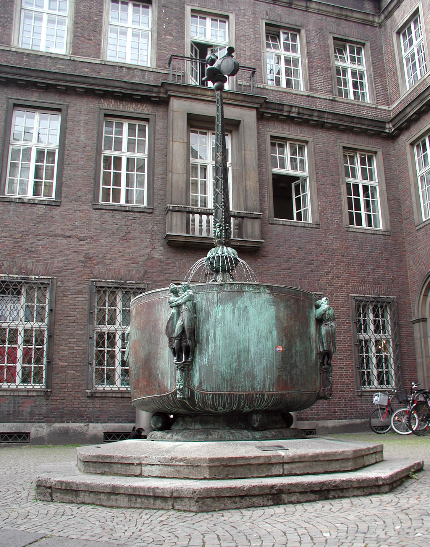 Fastnachtsbrunnen (lit. Carnival fountain) at Cologne, Gülichplatz; 1913 by sculptor Georg Grasegger